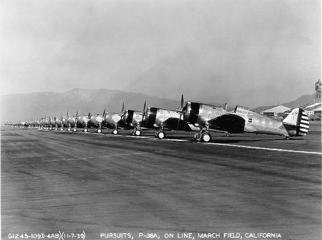 20th Pursuit Group P-36As, March Field, California (PT marking P for Pursuit T for 20th letter in alpha, note 20th shield on side of a/c)